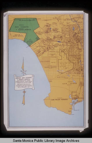 Map of Rancho San Vicente y Santa Monica, Santa Monica: Calendar of Events in the Making of a City, 1875-1950.